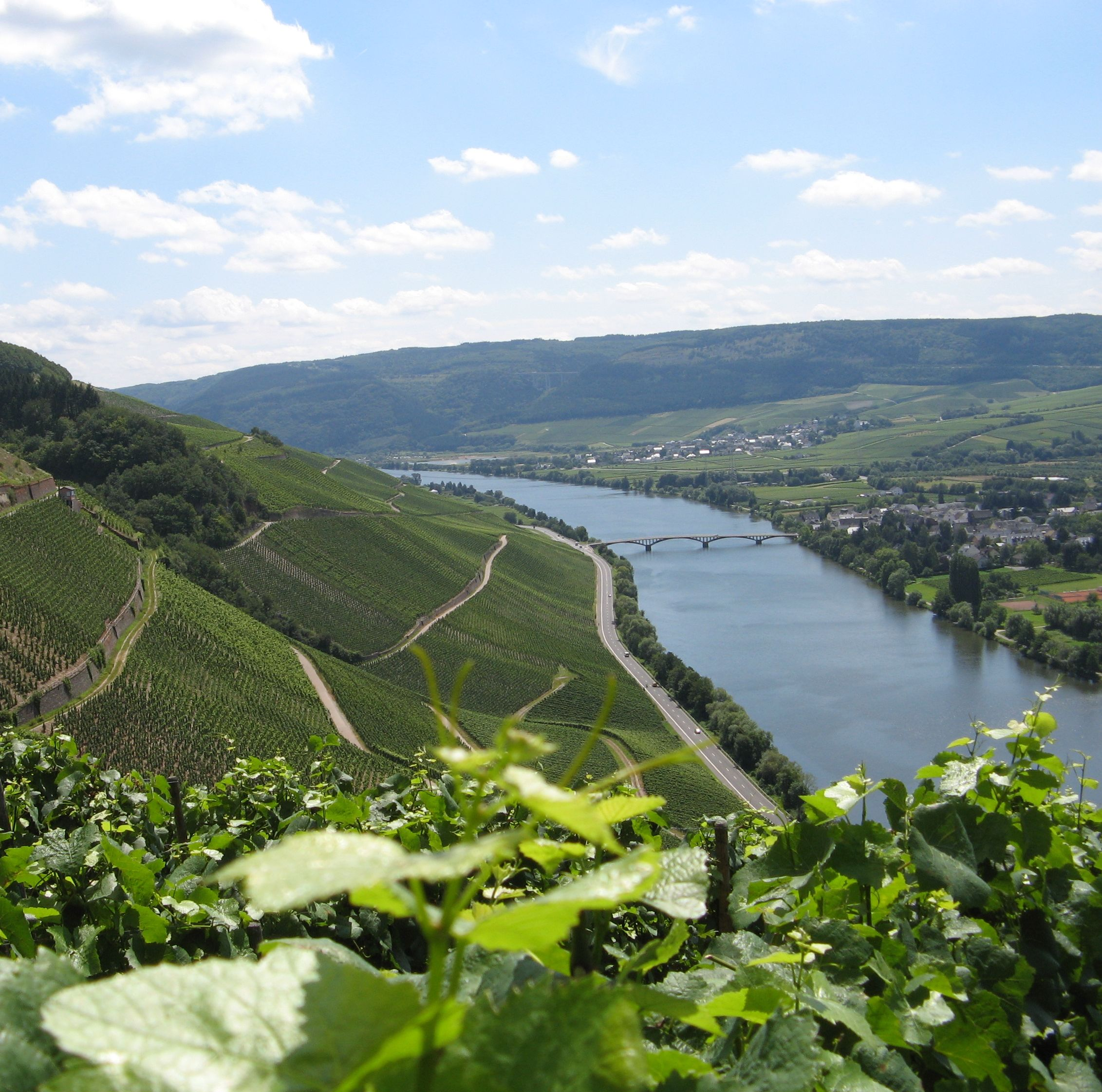 View over the Moselle River from the Annaberg-Hill in Schweich